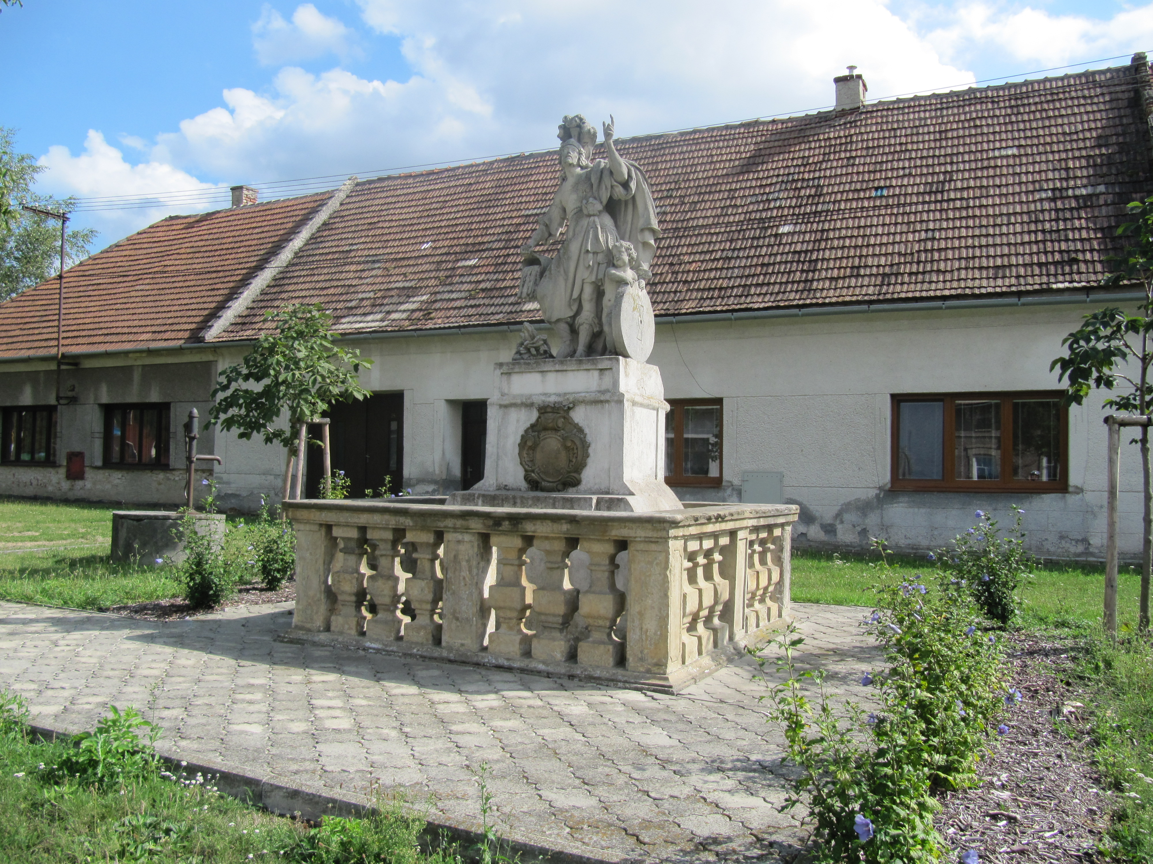 Oplocany, Přerov District, Czech Republic.